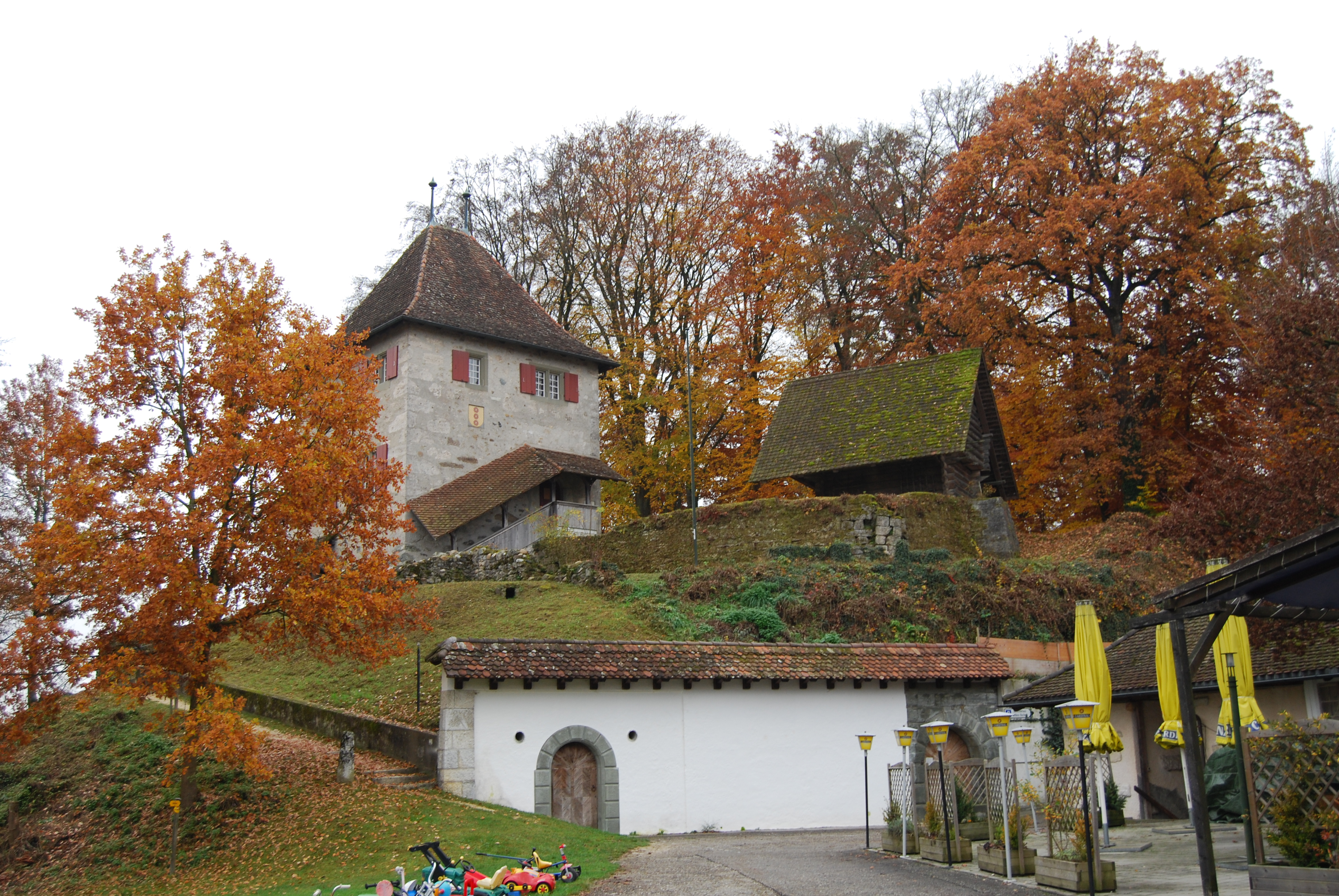 Castle Buchegg, Kyburg-Buchegg, canton of Solothurn, Switzerland